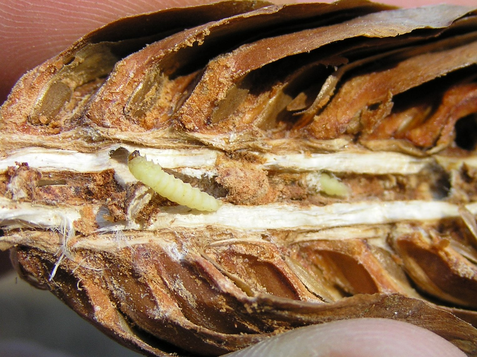 Ernobius abietis (Anobium abietis), Białowieża forest, Poland